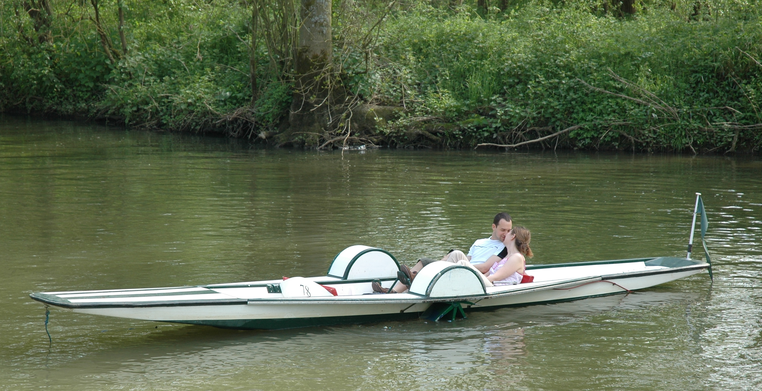 A traditional Thames punt adapted for pedal-power. River Cherwell, Oxford